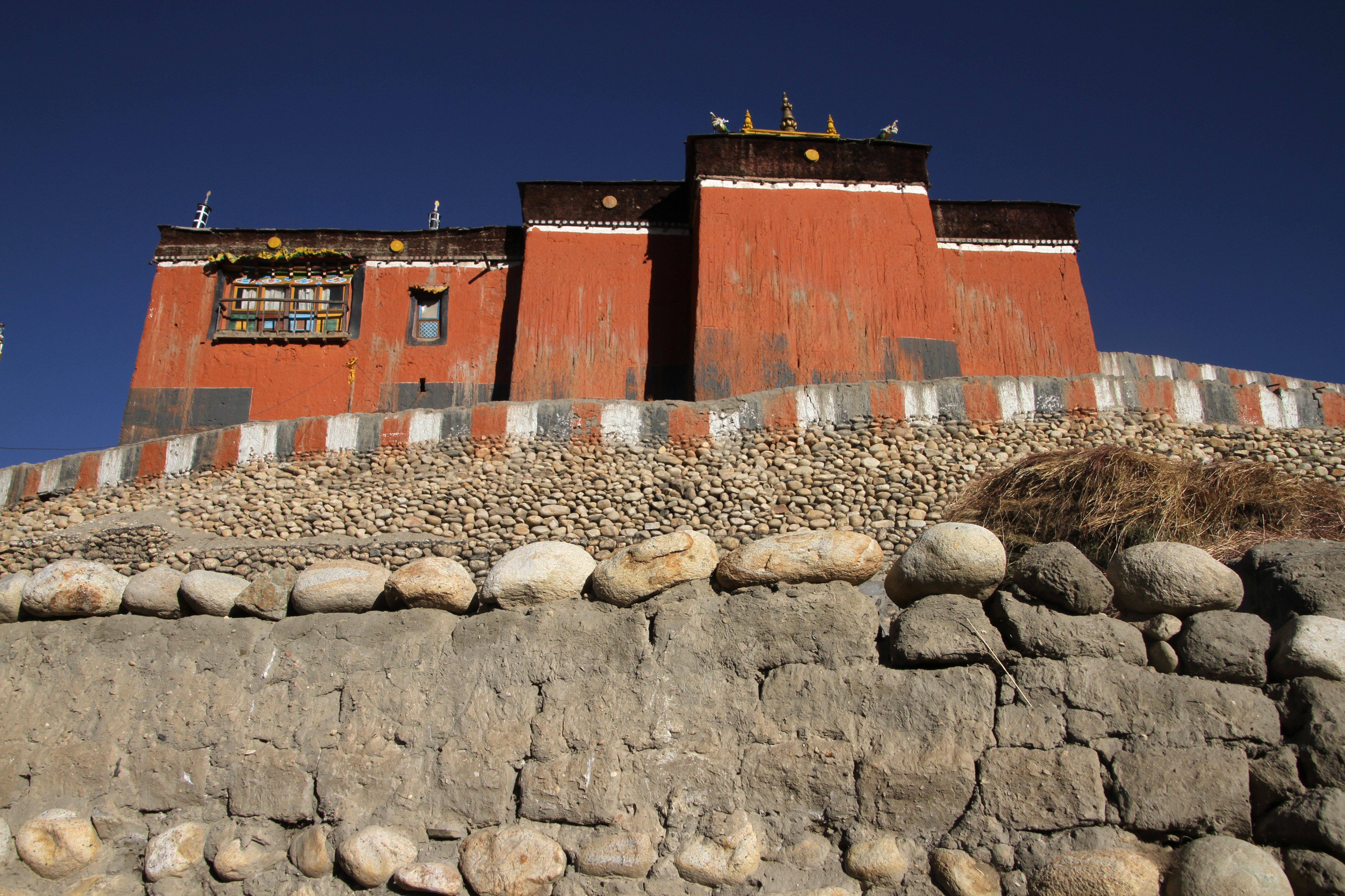 Charang Thupten Sedup Dharkeling Gumba